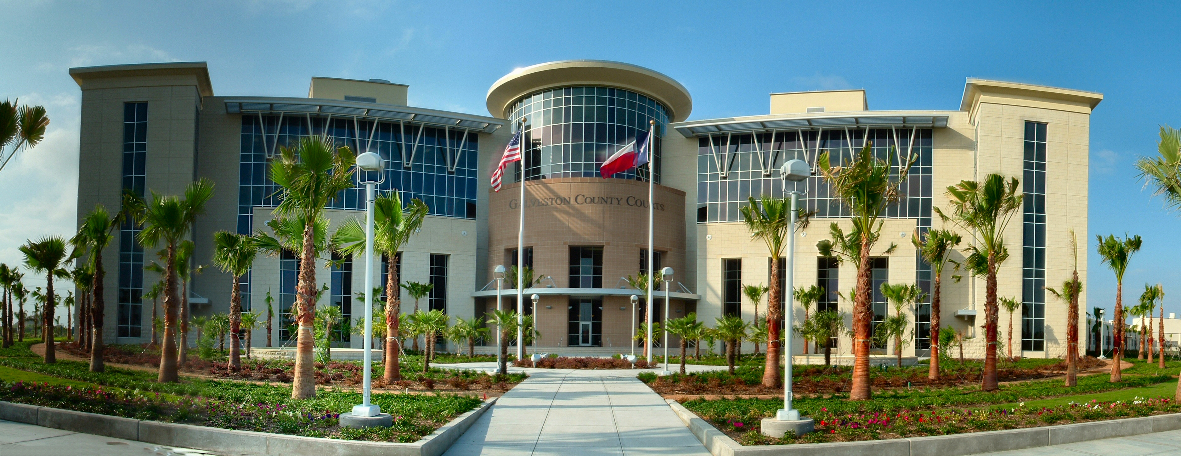 Galveston County Justice Center. Constructed in 2006, the Justice Center houses Galveston County's County and State Judicial Courts.